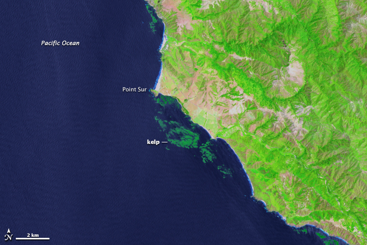 Giant kelp thrive in cold, nutrient-dense waters, particularly where there is a rocky, shallow seafloor. The California coast provides ideal habitat. (NASA Earth Observatory image by Mike Taylor, using Landsat data from the U.S. Geological Survey)